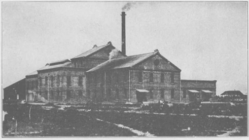 Yensuiko sugar mill